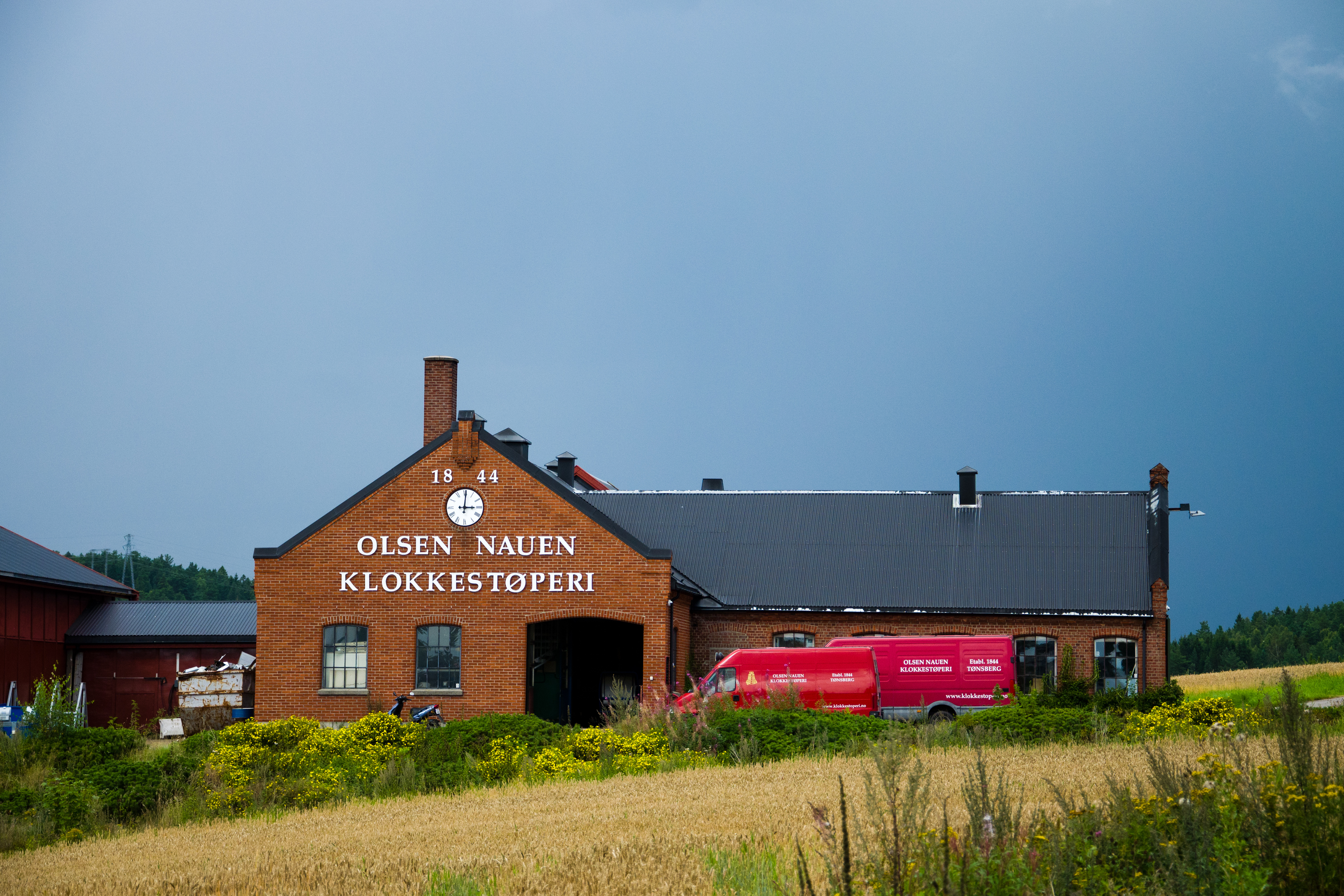 Olsen Nauen Bell Foundry, in Tønsberg, Vestfold, Norway. Established 1844.